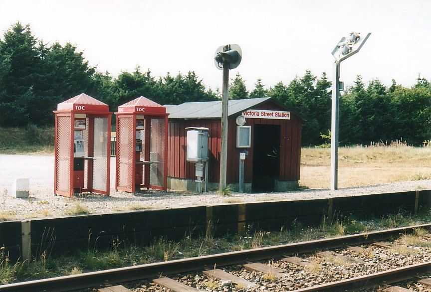 Lemvigbanen's Victoria Street Station in Jylland, Denmark